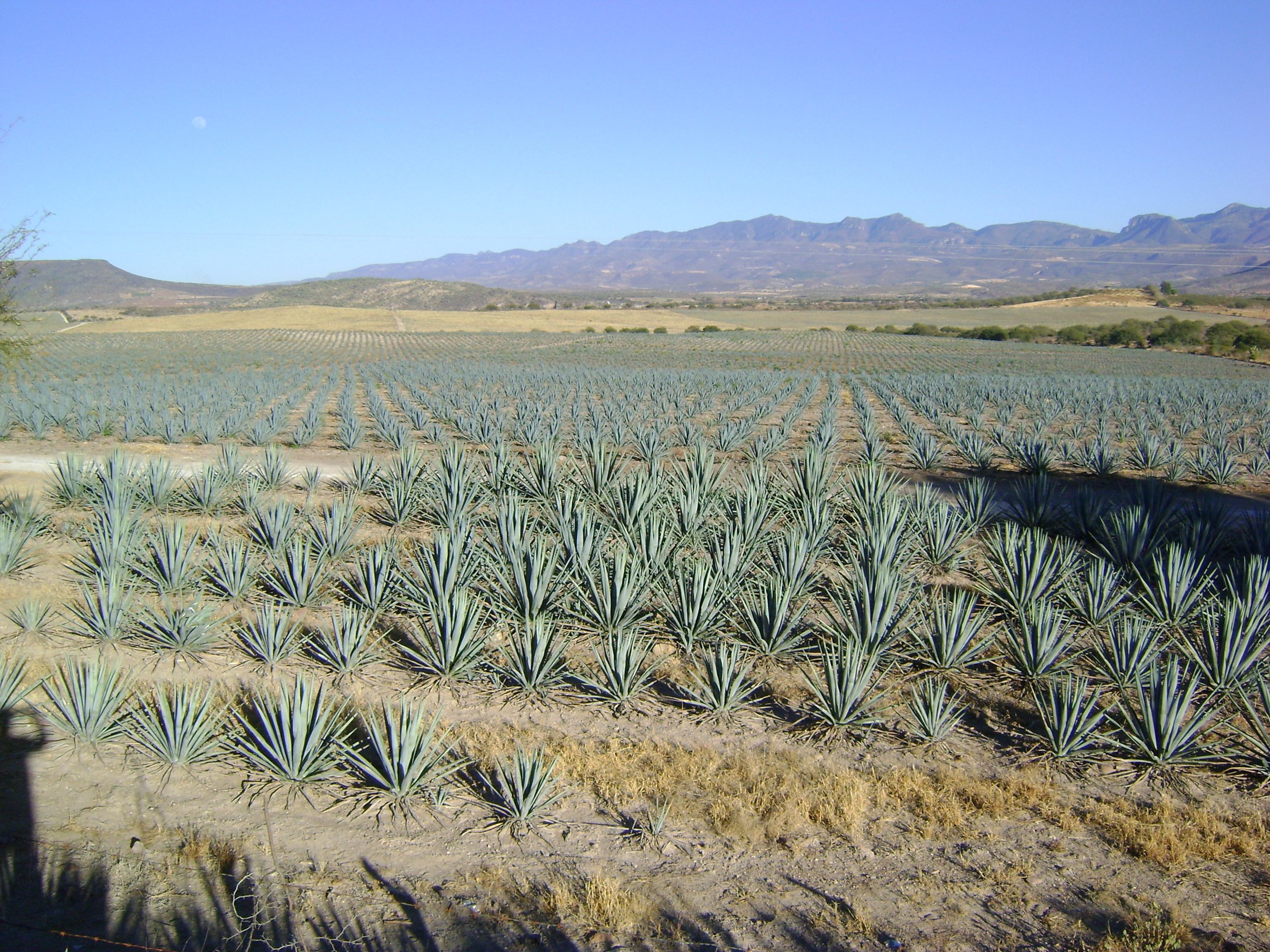 Agave North of Jalpa, Zacatecas